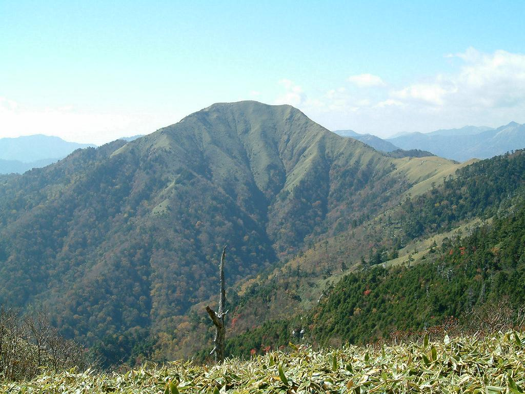 Mount Jirogyu as seen from the ENE. Taken from Mount Ichinomori.